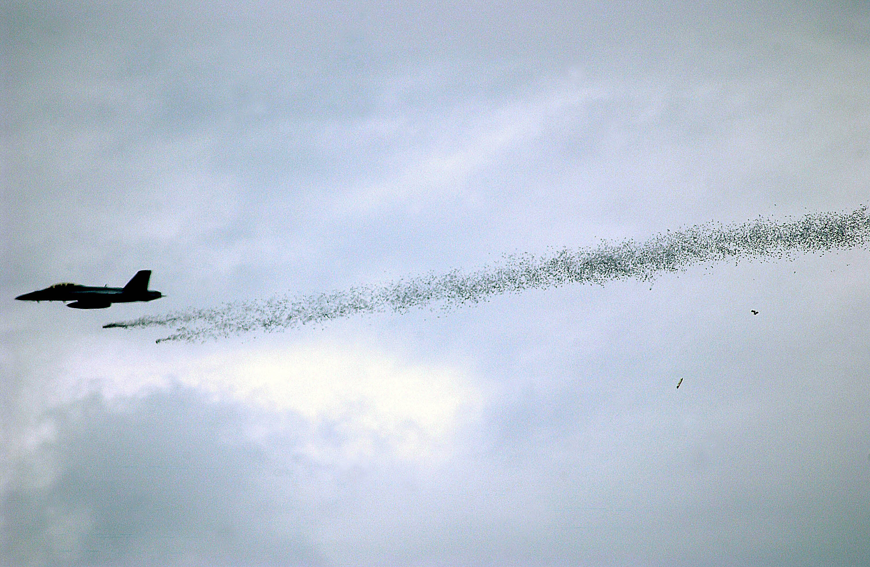 Pacific Ocean (Mar. 18, 2005) - An F/A-18F Super Hornet, assigned to the "Black Aces" of Strike Fighter Squadron Four One (VFA-41), drops a Payload Delivery Unit Five (PDU-5) bomb filled with leaflets approximately 1 mile away from USS Nimitz (CVN 68) during a training exercise. Leaflets lay out the consequences of actions in an effort to ensure local civilian populations are properly informed. Each leaflet is typically 3-by-6 inches in size, written in Arabic, and are dropped in fiberglass containers that explode over designated areas to increase scatter and drift to the ground. Nimitz and Carrier Strike Group Eleven (CSG-11) are currently conducting a Joint Task Force Training Exercise (JTFEX) off the coast of southern California. U.S. Navy photo by Photographer's Mate Airman Elisabeth Ann Saccotelli (RELEASED)